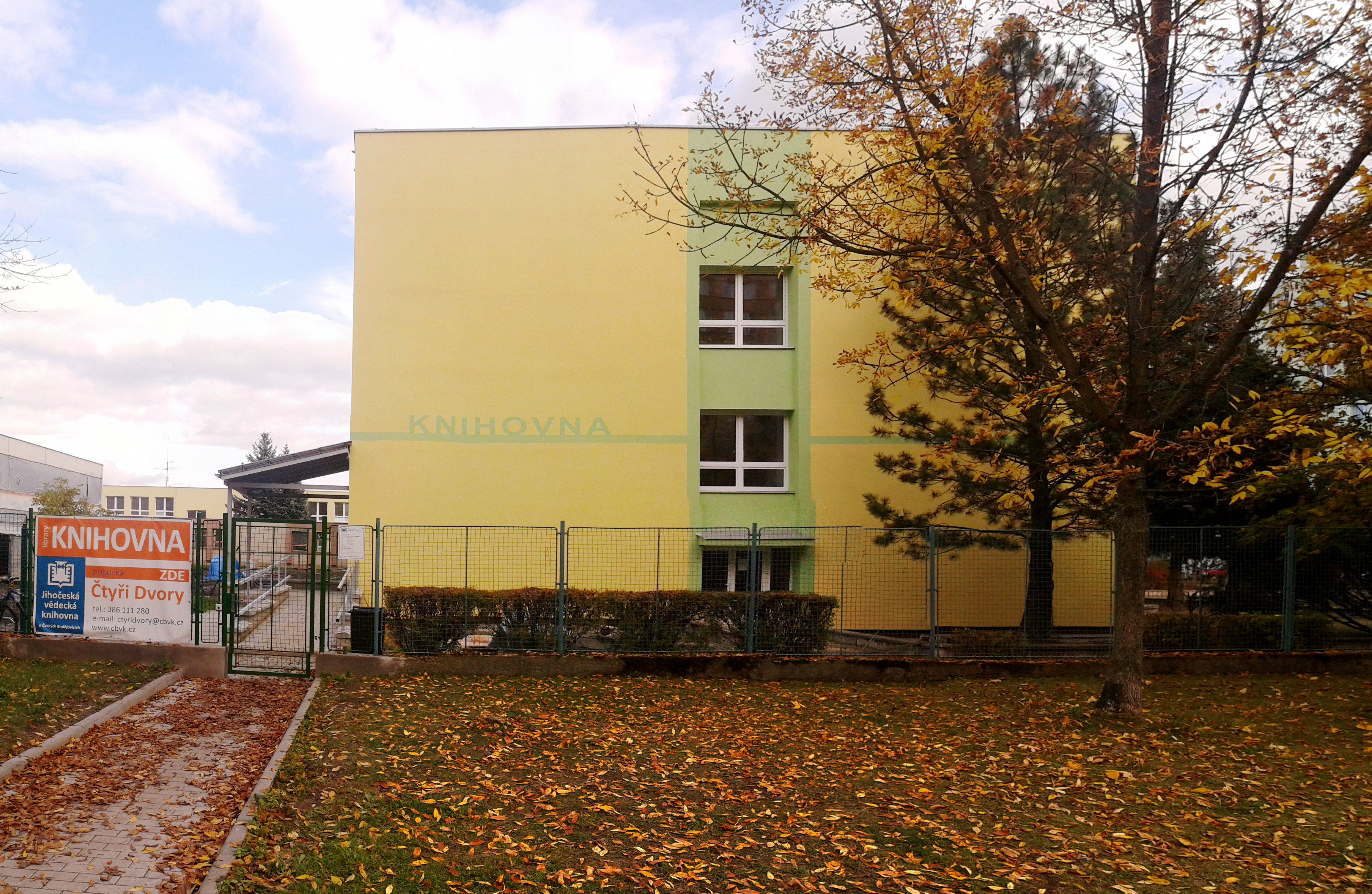 The Research Library of South Bohemia in the city of České Budějovice, South Bohemian Region, Czech Republic - the local branch in Čtyři Dvory.